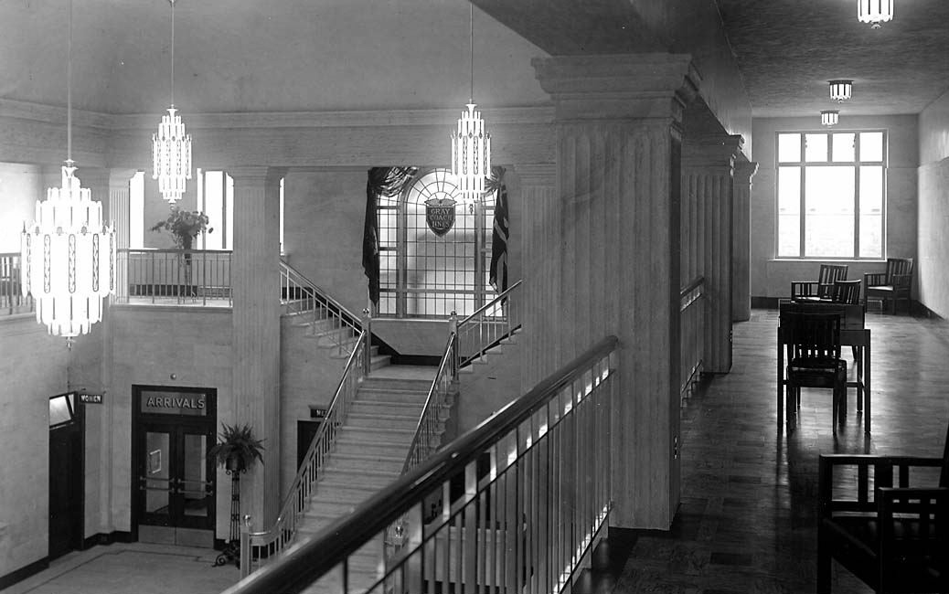 Motor coach terminal, Bay and Edward streets, Toronto, North Mezzanine, looking west.